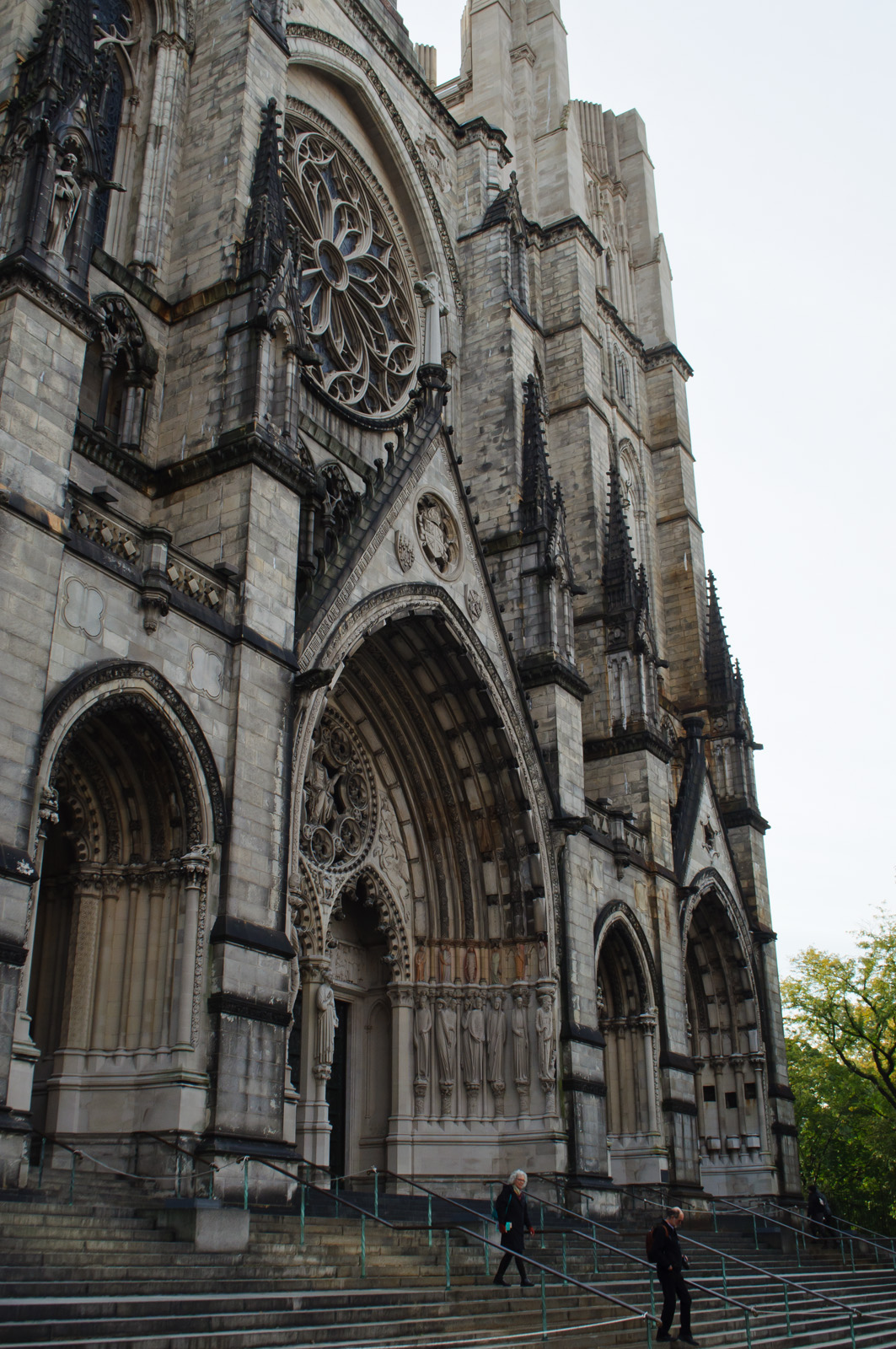 Located in Morningside Heights near Columbia University, St. John the Divine is the largest cathedral in the world. It has been under construction since the 1890s, and the work is still not complete. The main entrance and its facade.